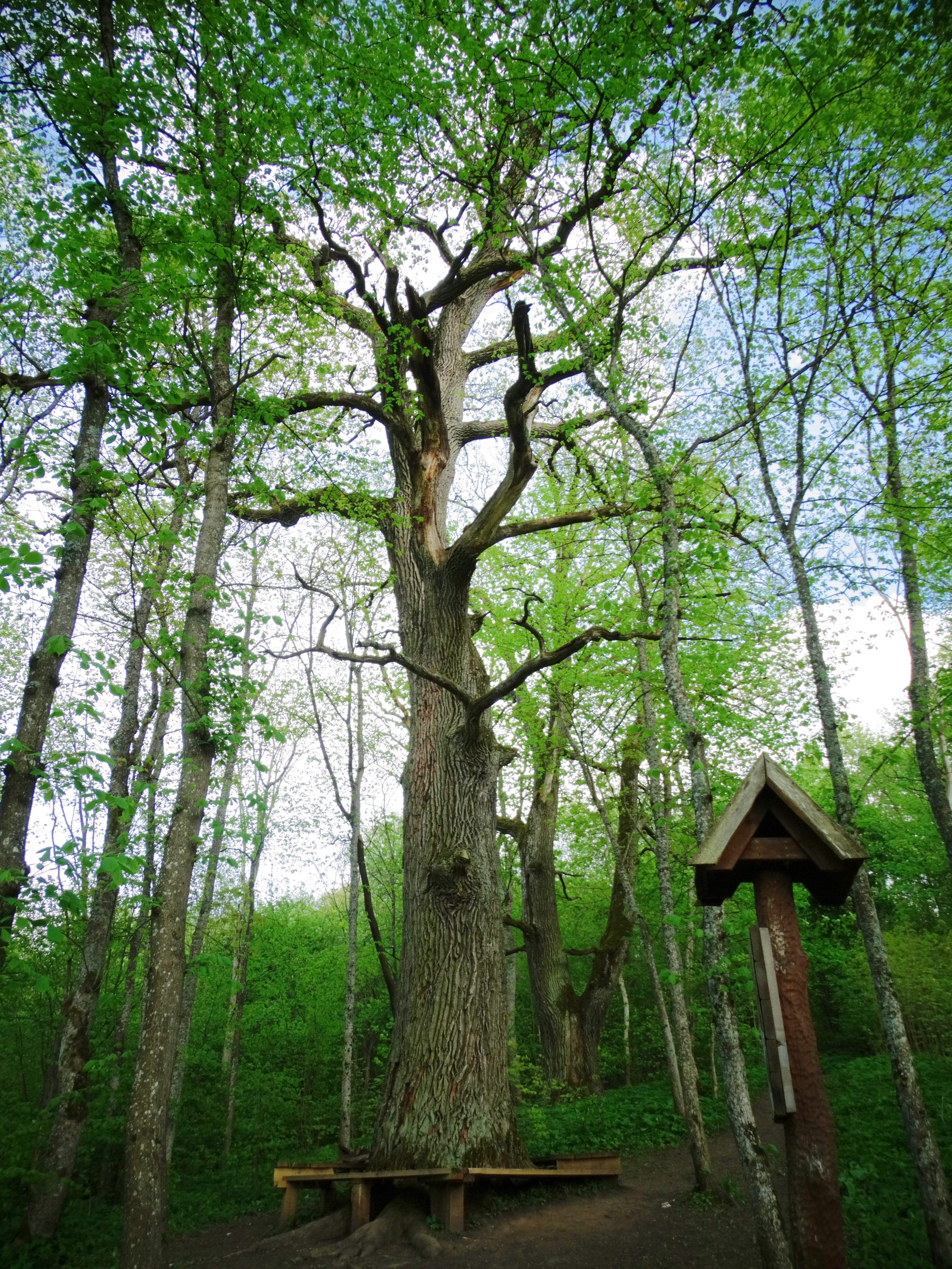 Sacred Daubų Oak, Vilnius District, Lithuania